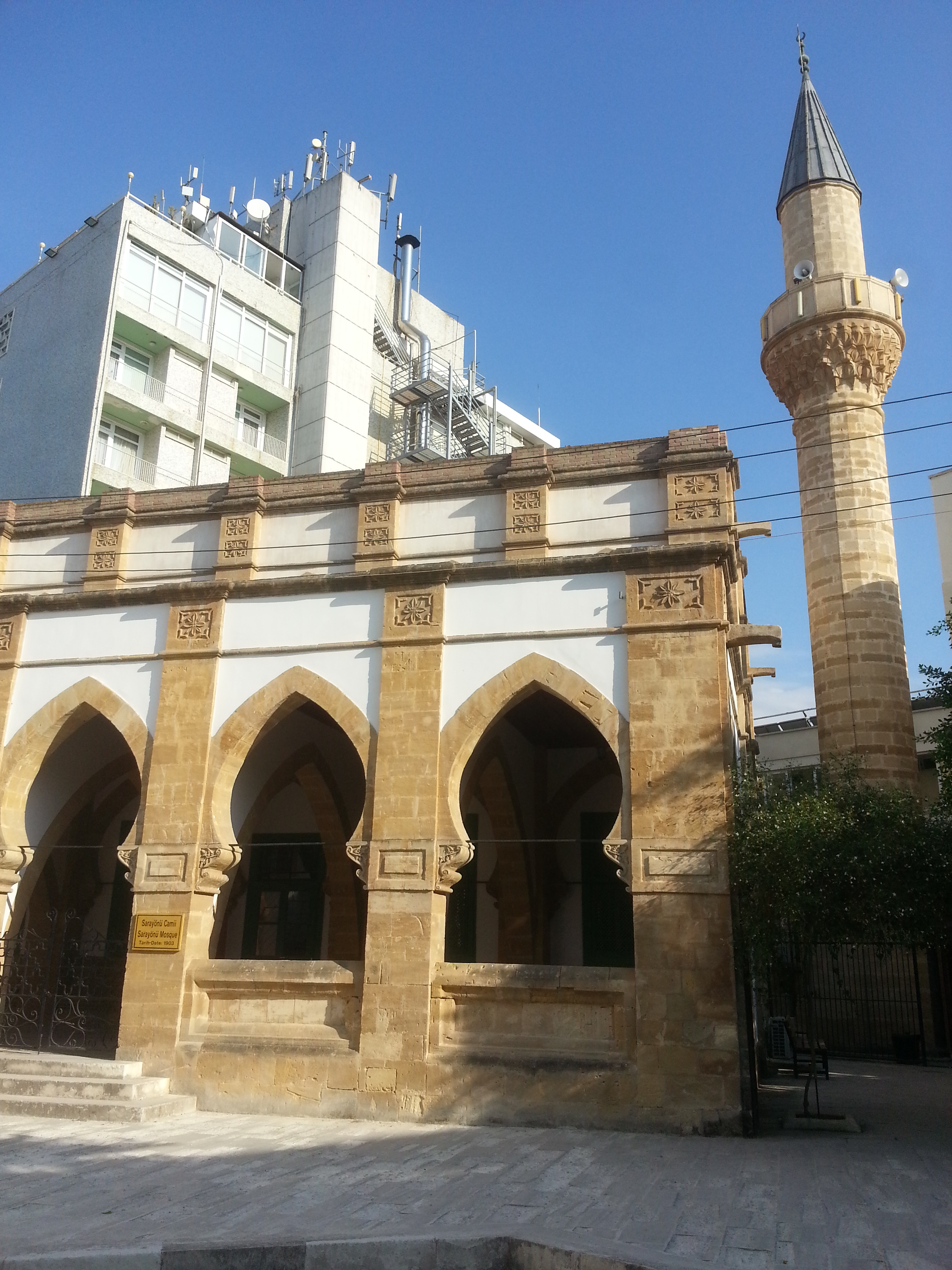 Sarayönü Mosque, a historical mosque in Sarayönü, North Nicosia